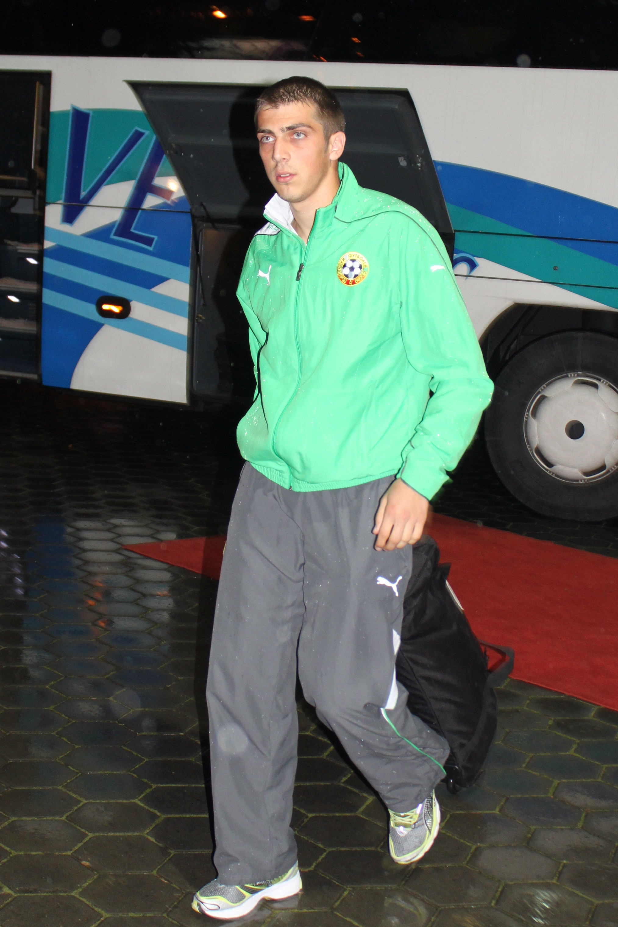 Yordan Miliev (Bulgarian: Йордан Милиев) (born October 5, 1987) is a Bulgarian football player. He is a reliable defender who currently plays for PFC Levski Sofia.